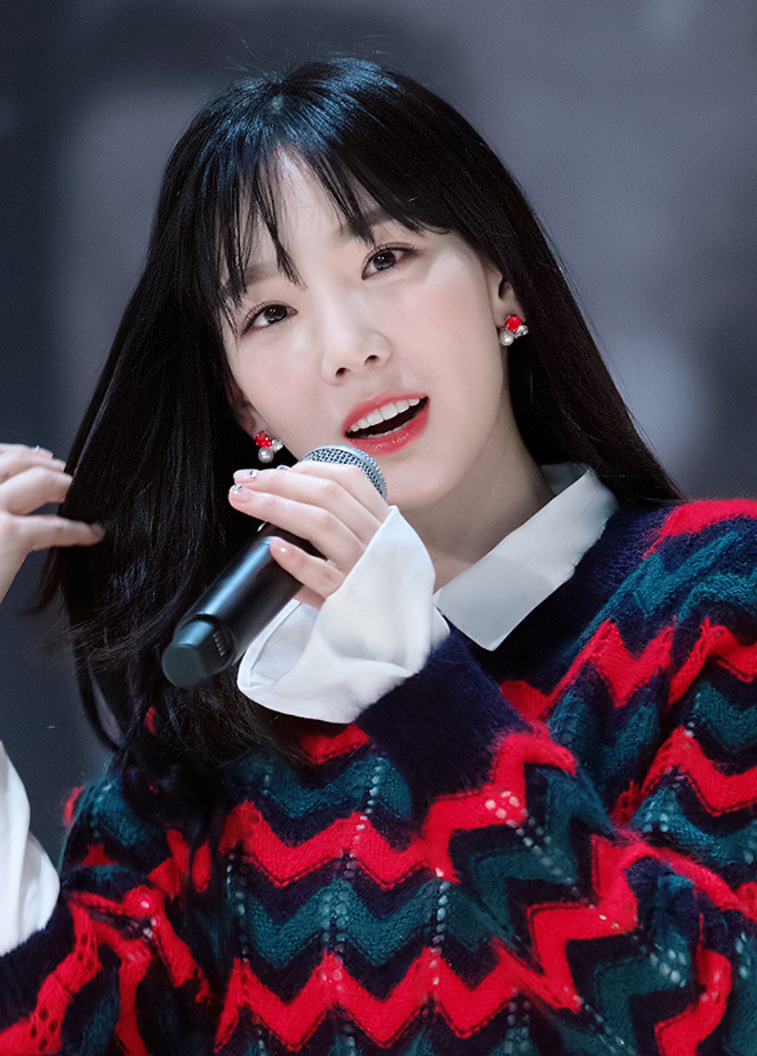 Kim Tae-yeon at a fansigning event on December 17, 2017.